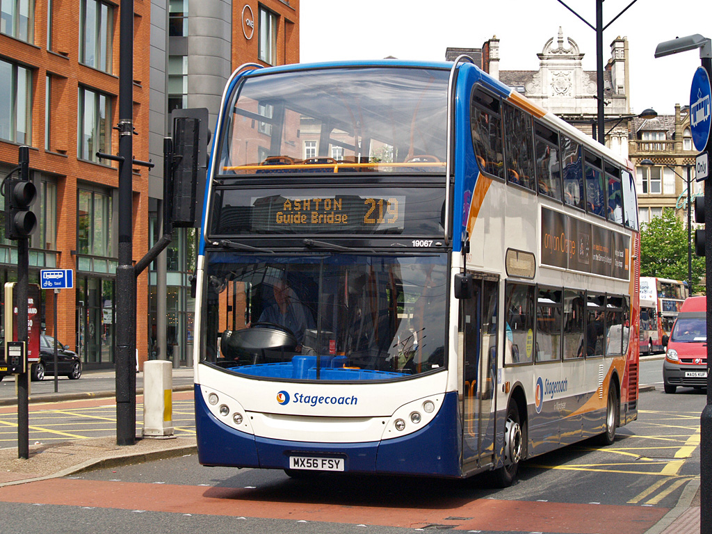 Stagecoach Manchester 19067 MX56 FSY, an Alexander Dennis ‘Trident’ built 2006 with Alexander Dennis ‘Enviro 400’ H47/34F body on Portland Street, Manchester at the junction with Aytoun Street with the 14:20 Manchester Piccadilly Gardens to Ashton Bus Station via Openshaw 219 service. Friday 25th July 2008